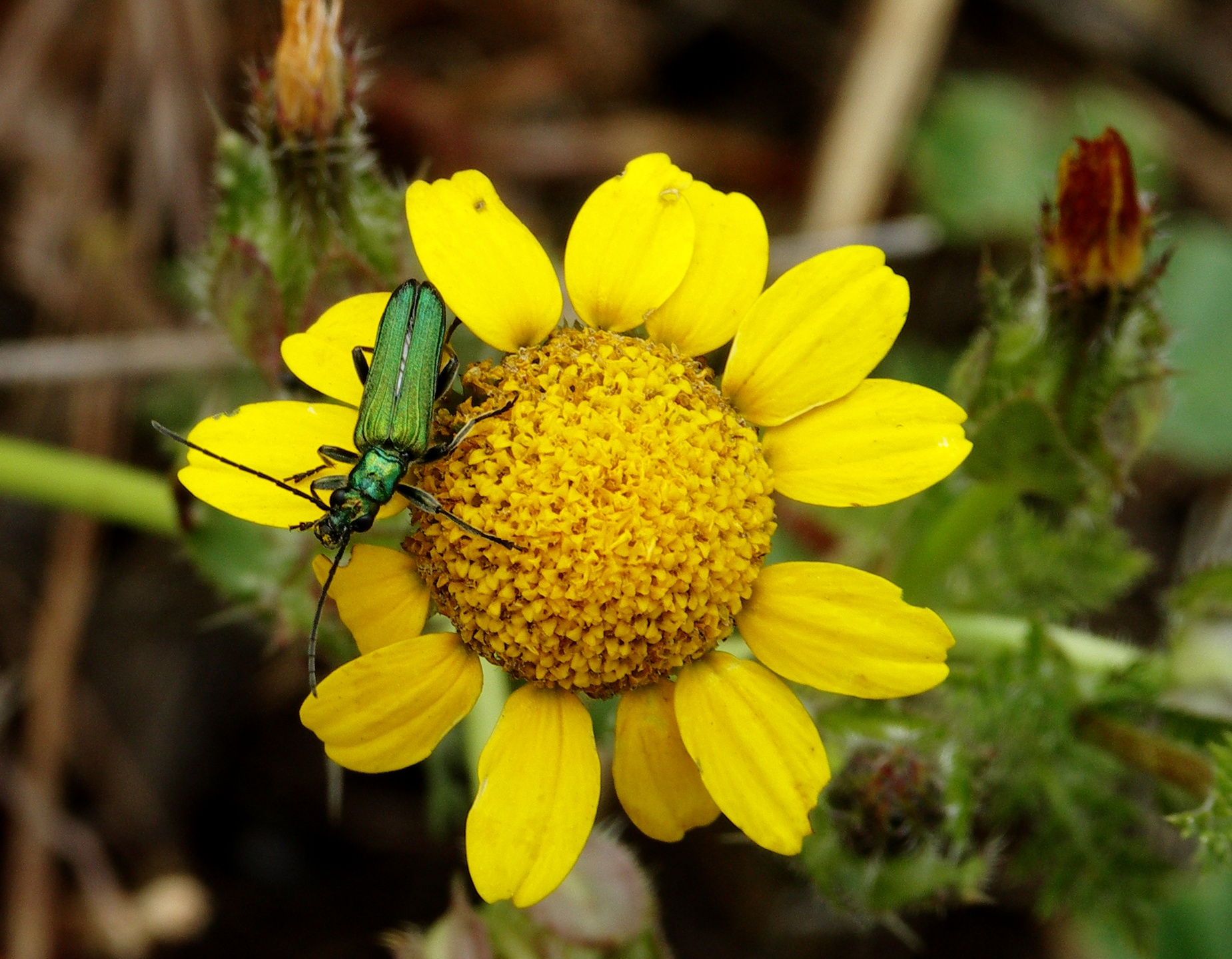 Green beetle (Anogcodes seladonius) on a flower of Yellow chamomile (Anthemis tinctoria)